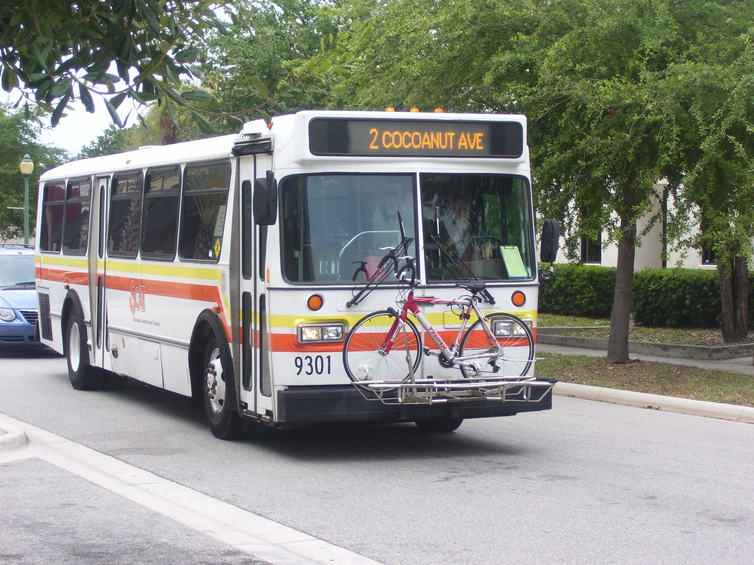 Taken by W.Slupecki